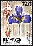 Stamp of Belarus